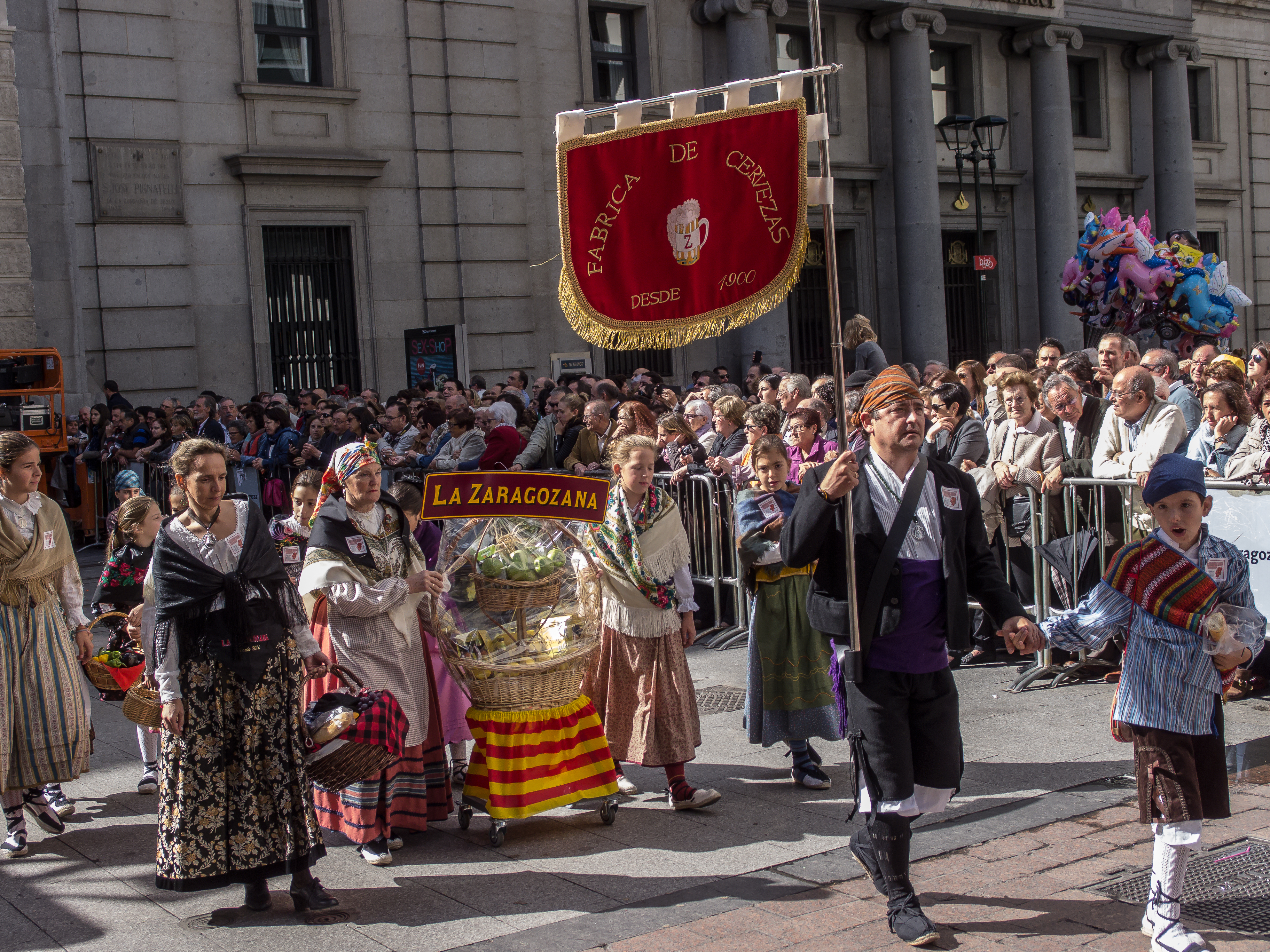 OLYMPUS DIGITAL CAMERA This is a photography of a Folklore festival in Spain (Wikidata id Q3092925).